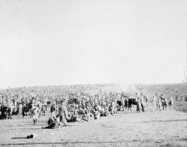 Ottoman prisoners captured by the 2nd Light Horse Brigade on 29/30 September at Ziza. Reference: Bou, Jean. (2010). Australia's Palestine Campaign. p. 131.